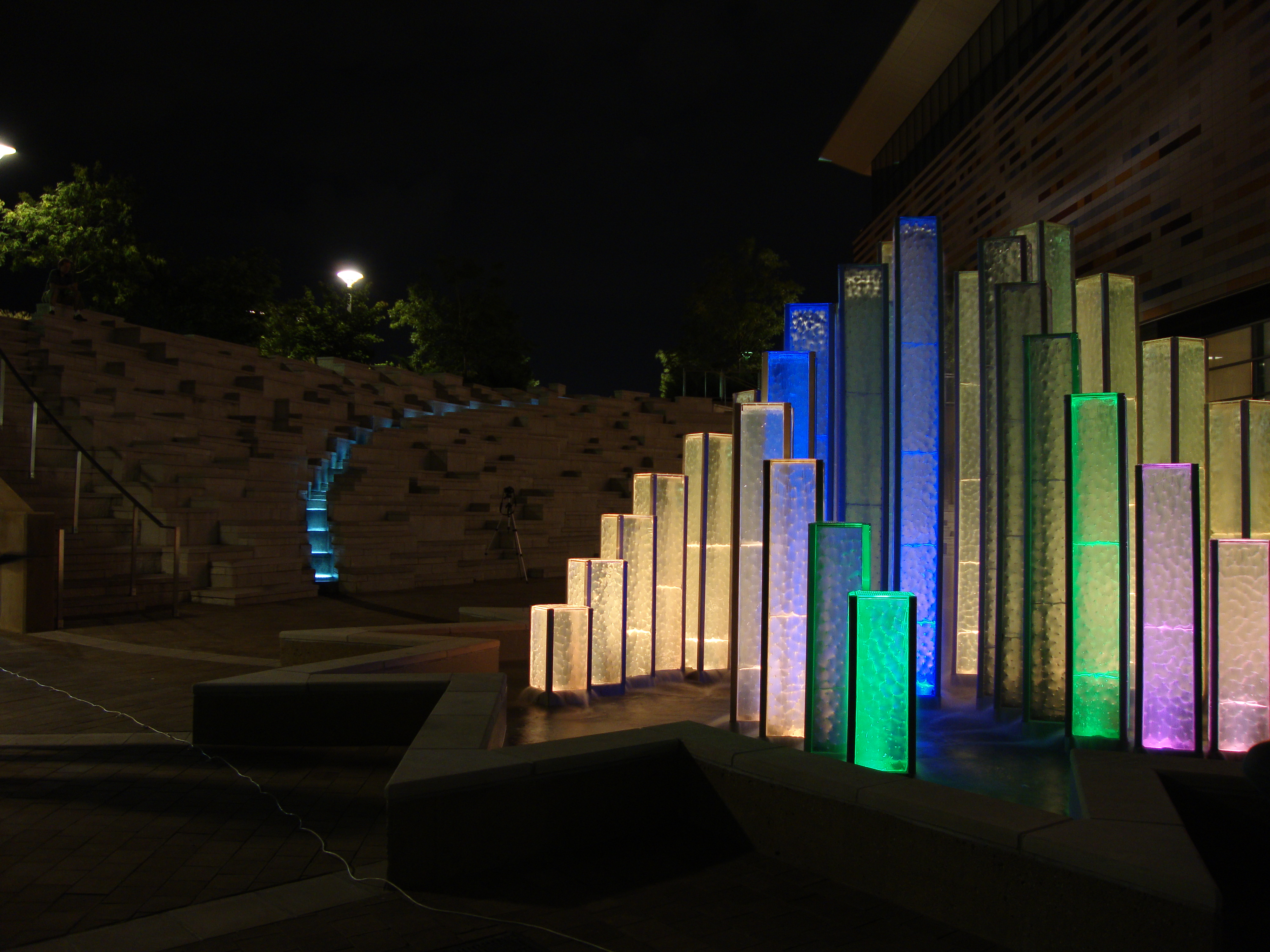 Star Fountain and Dancing Steps amphitheater designed by Athena Tacha at the Muhammad Ali Plaza, Louisville, KY. Night view with fountain and runnel illuminated, 2009